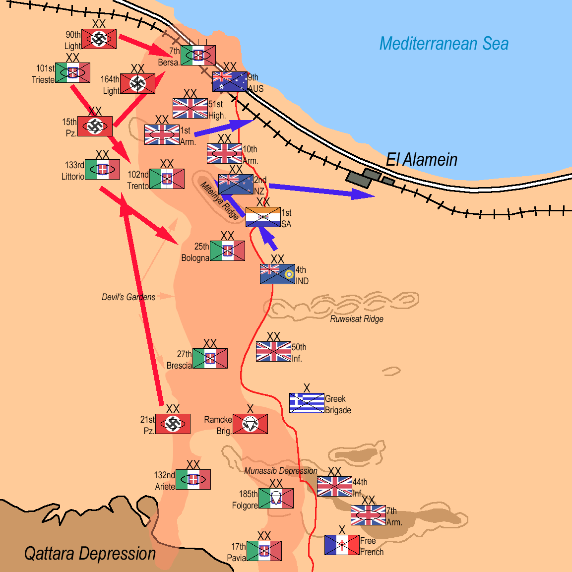 Second Battle of El Alamein: Both sides reorganize the deployment of their Forces: Night of October 26th to October 27th, 1942.